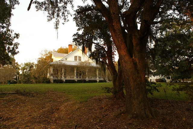 Canemount